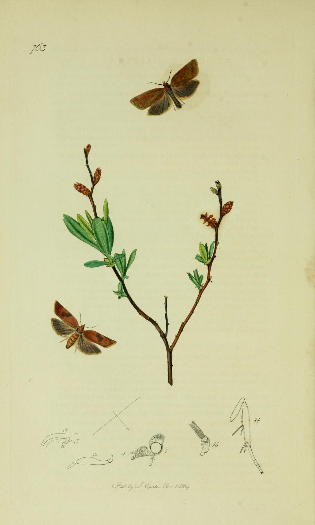 An illustration from British Entomology by John Curtis. Lepidoptera: Tortrix galiana or Aphelia viburnana (Sweet Gale Tortrix).